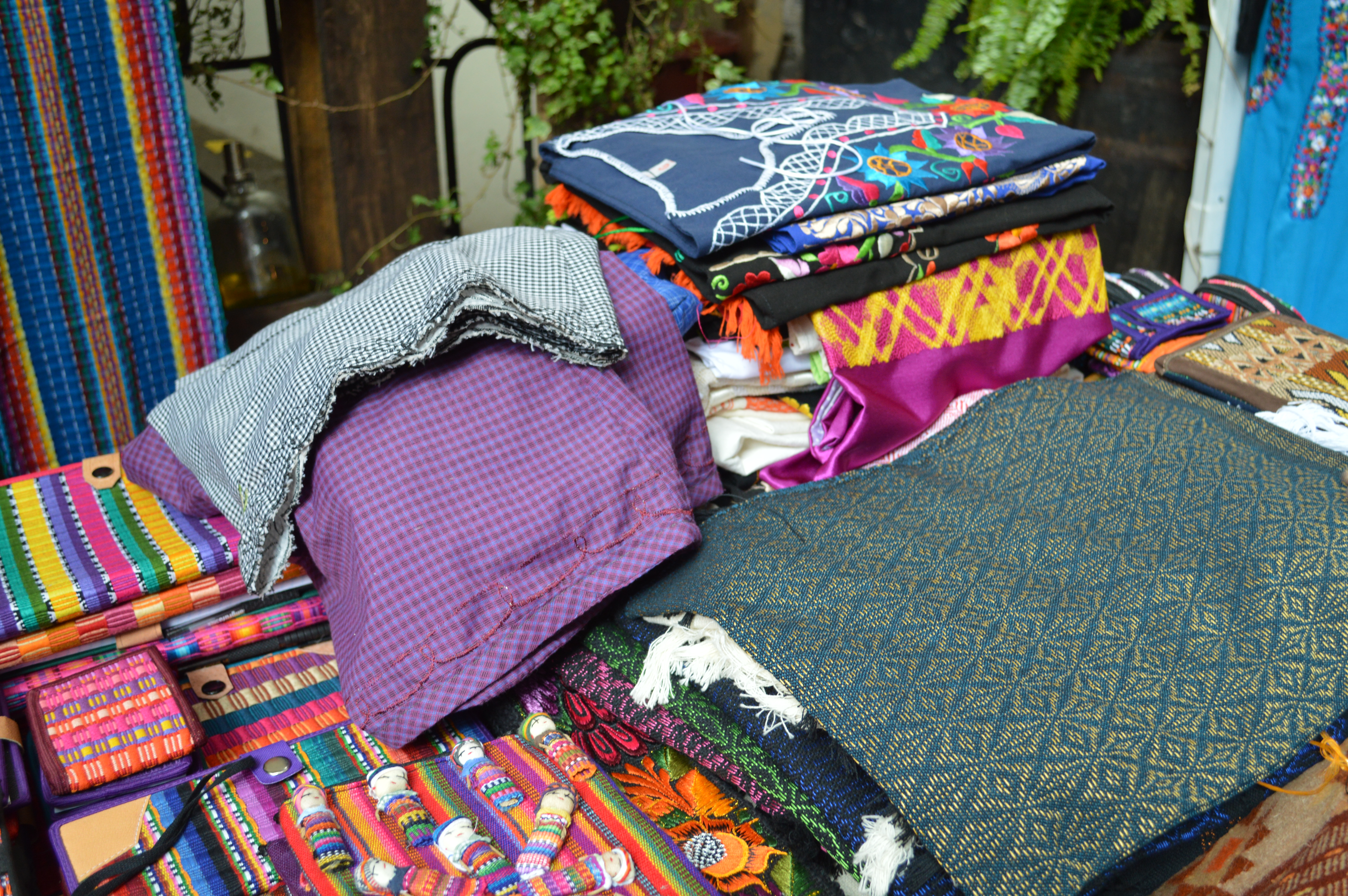 Textiles from Chiapas at the 6o Festival Gastronómico in Colonia Roma, Mexico City